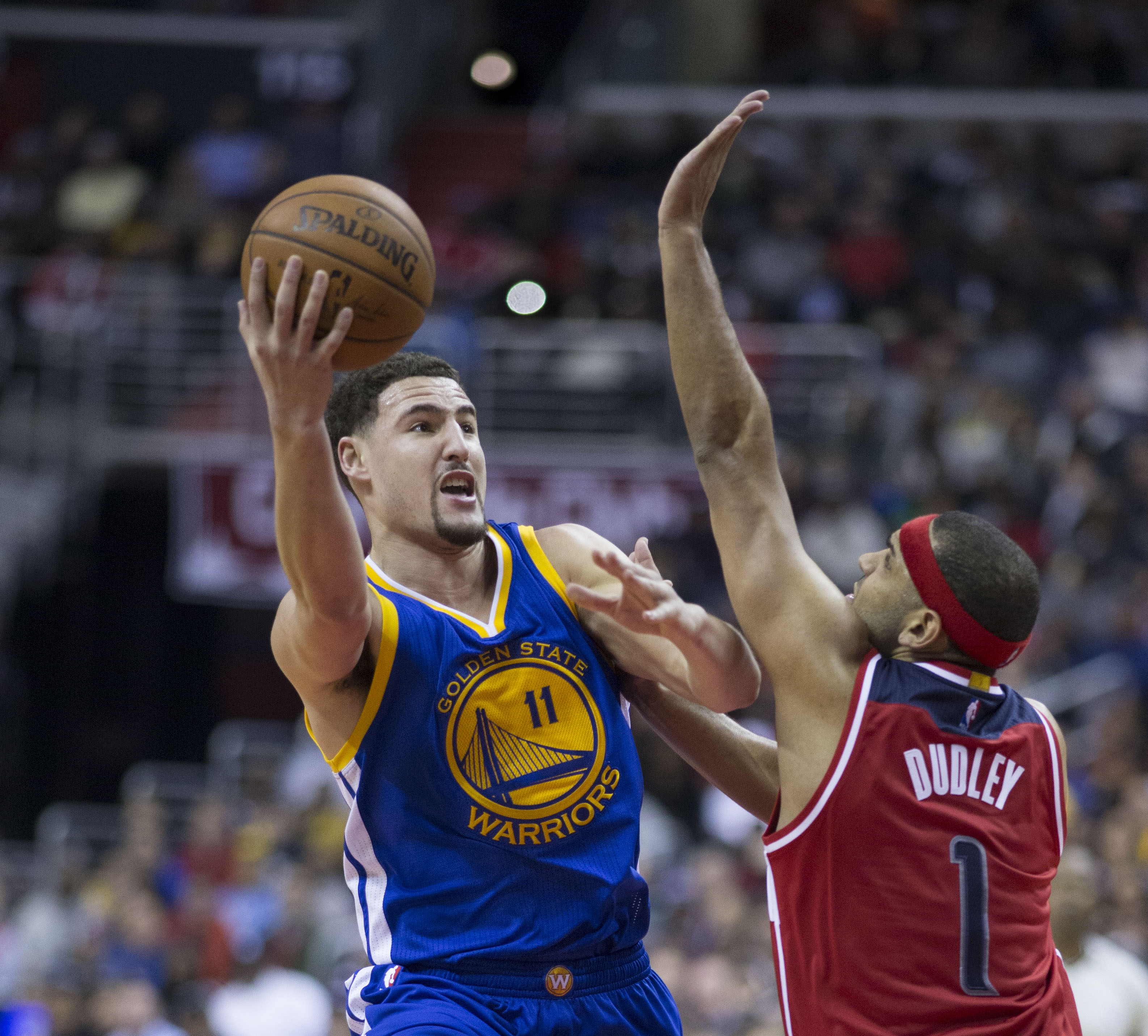 Klay Thompson of Golden State Warriors shooting against Jared Dudley of Washington Wizard